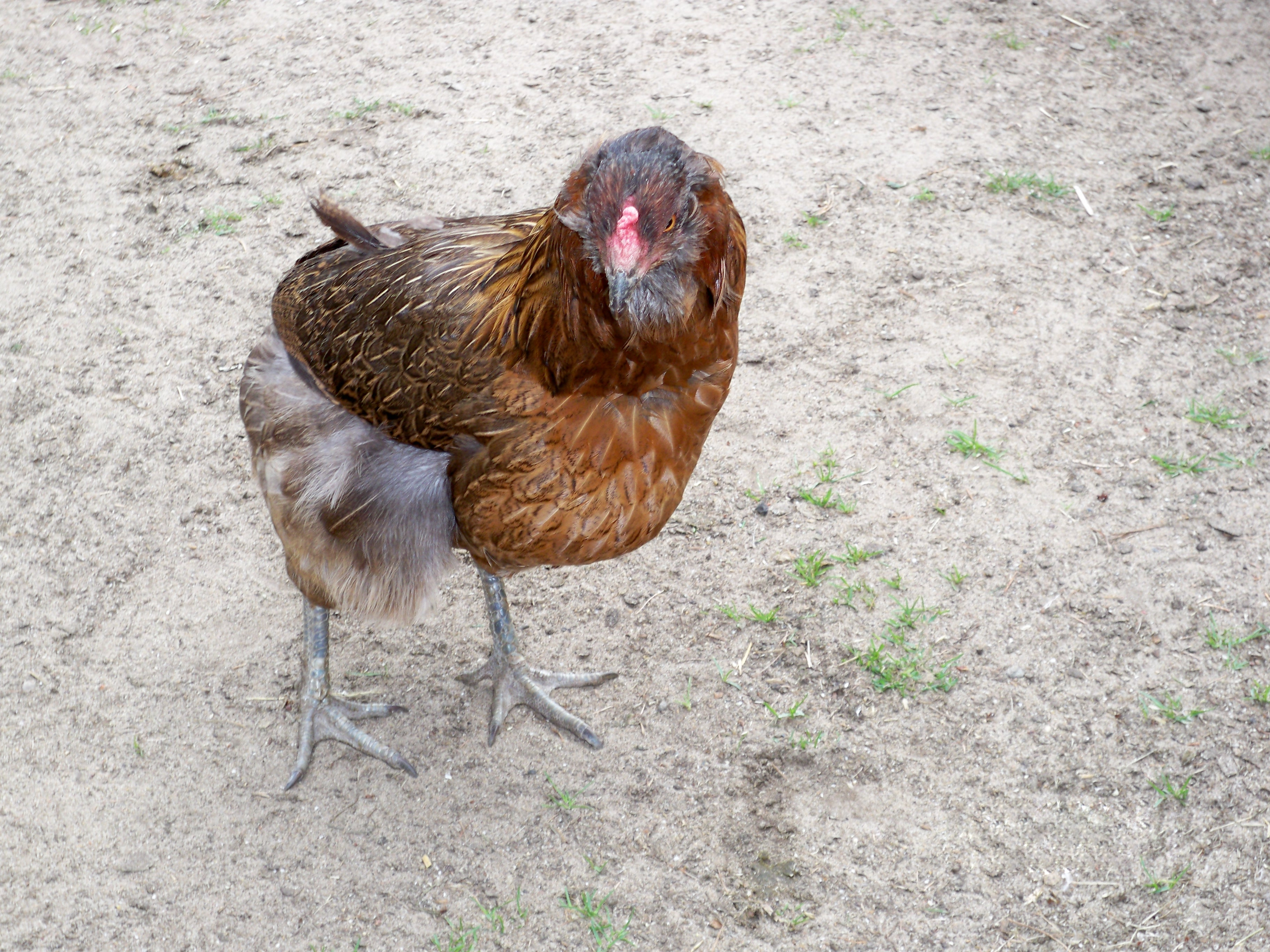 Araucana hen outside